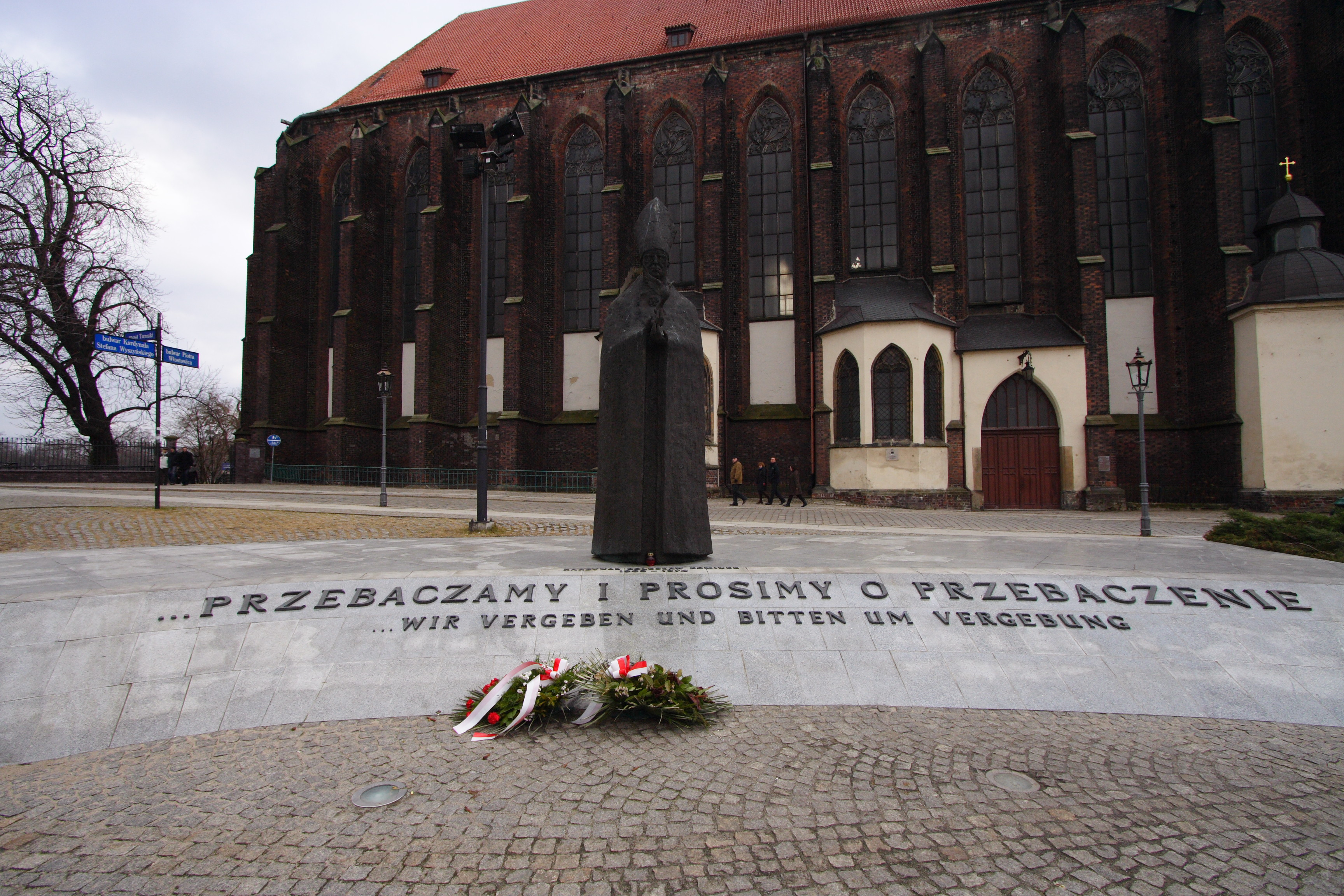 Wroclaw during WikiConference Poland'11